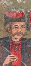 Saint Demetrius Church in Teshovo Mino, Marko and Teofil Minovi